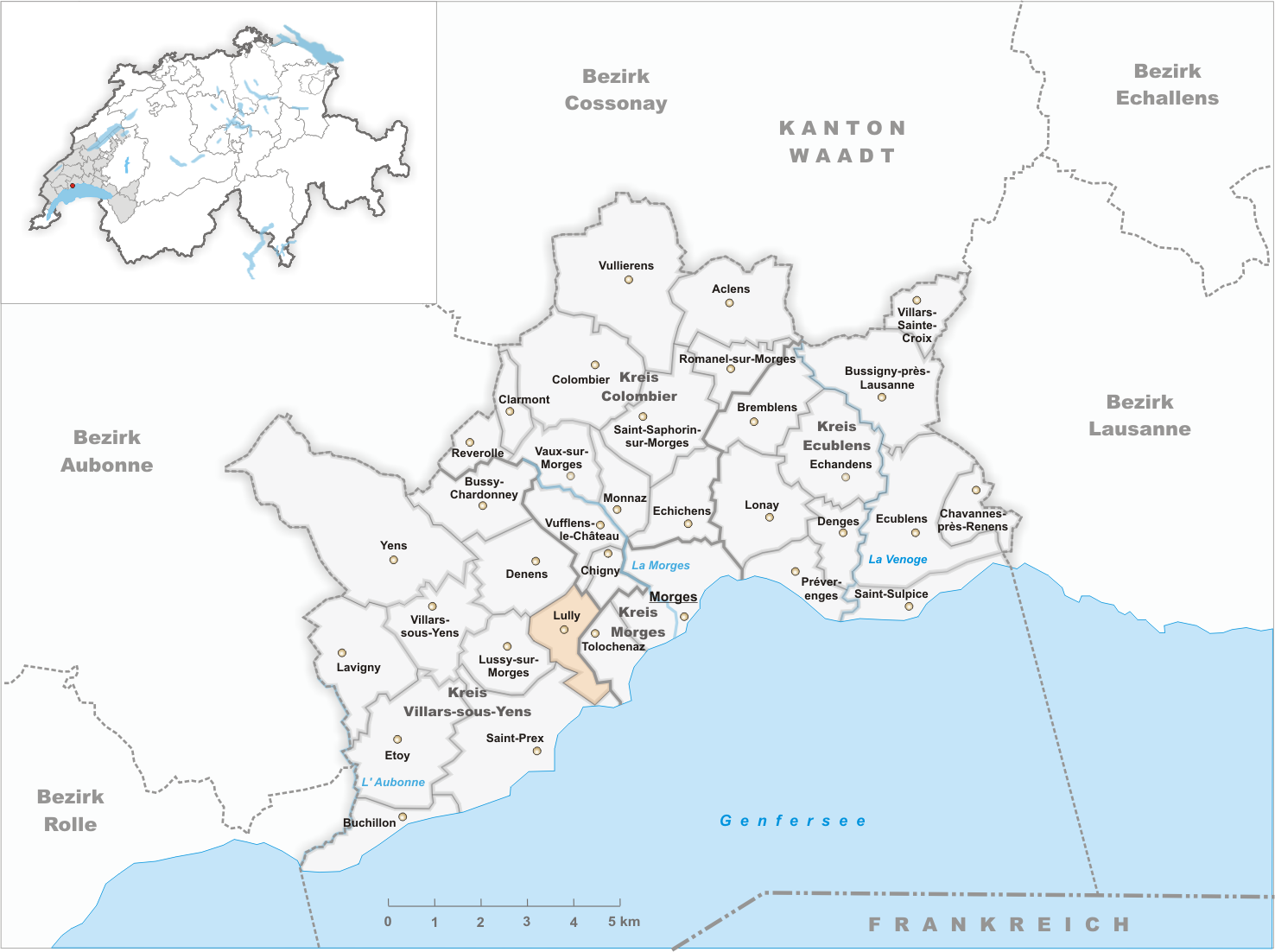 Municipality Lully